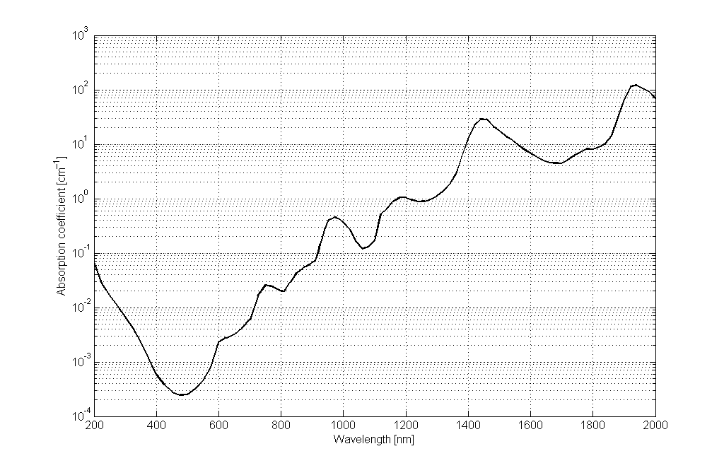 The absorption spectrum of water